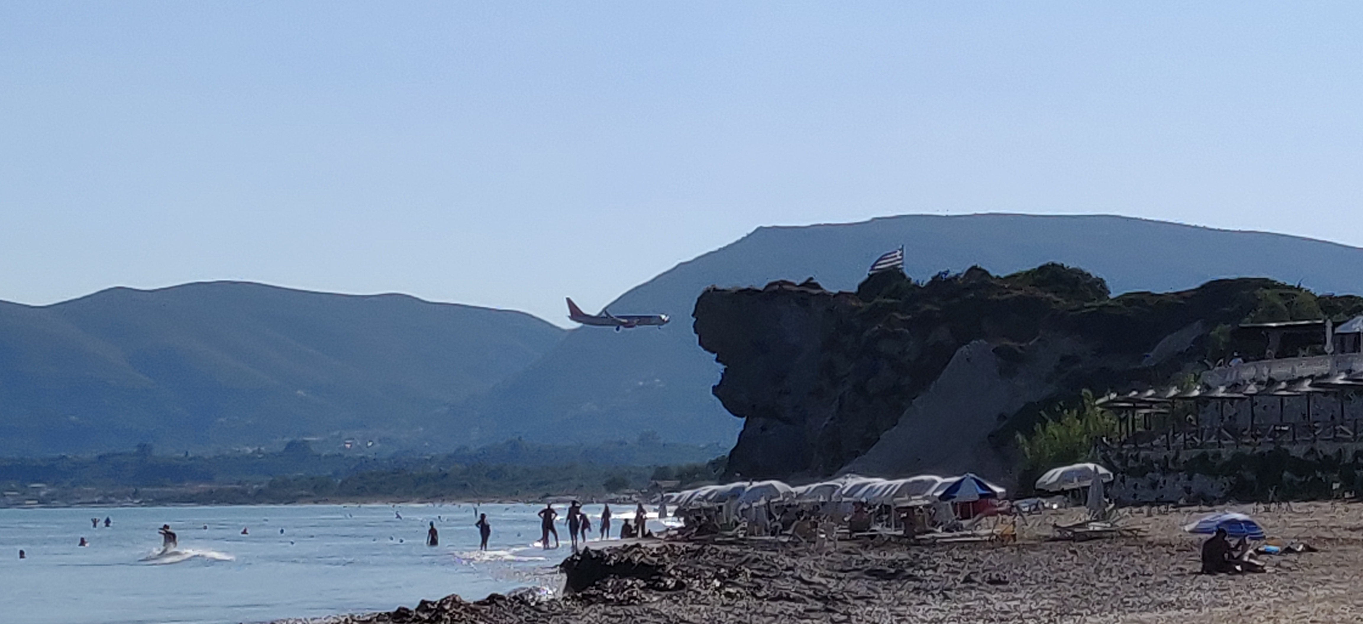 Unidentified commercial jet on short final for runway 34 of Zakinthos int'l airport (ZTH, LGZA), as seen from the eastern end of Kalamaki beach in July 2019.